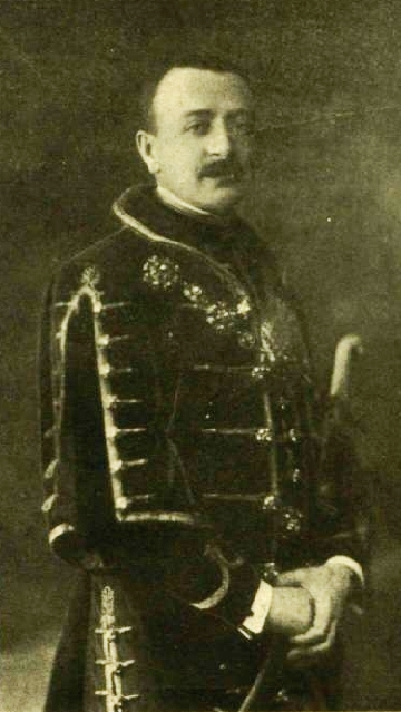 Photo of Alfréd Drasche-Lázár